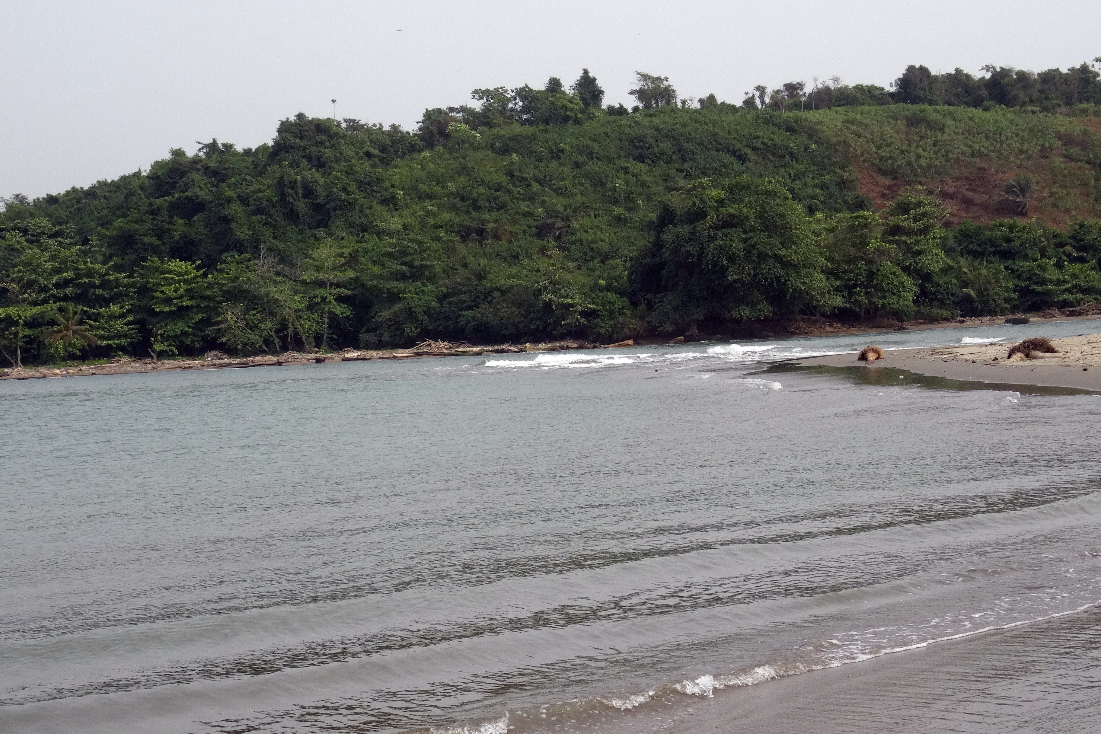 The estuary of Ankobre River in the Western Region of Ghana. The river flows into the Gulf of Guinea (Atlantic Ocean). The waves of the Atlantic Ocean are flowing back into the river through a narrow mouth.